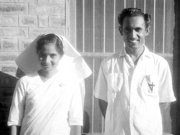 Caption: Suniti and Nahum, graduates of our Dhamtari, India, nursing school, recently began service in Nav Jivan Hospital at Satbarwa, Bihar, India, another Board project. Citation: Mennonite Board of Missions Photographs, 1898-1967. IV-10-007.2 Box 4 Folder 7. Mennonite Church USA Archives - Goshen. Goshen, Indiana.